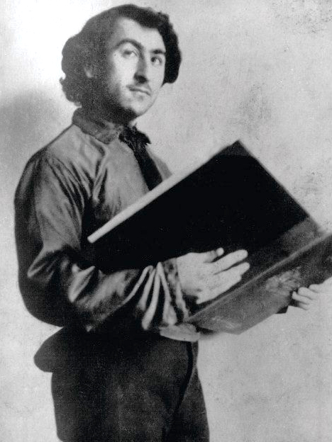 Bahruz Kangarli - Azerbaijani painter